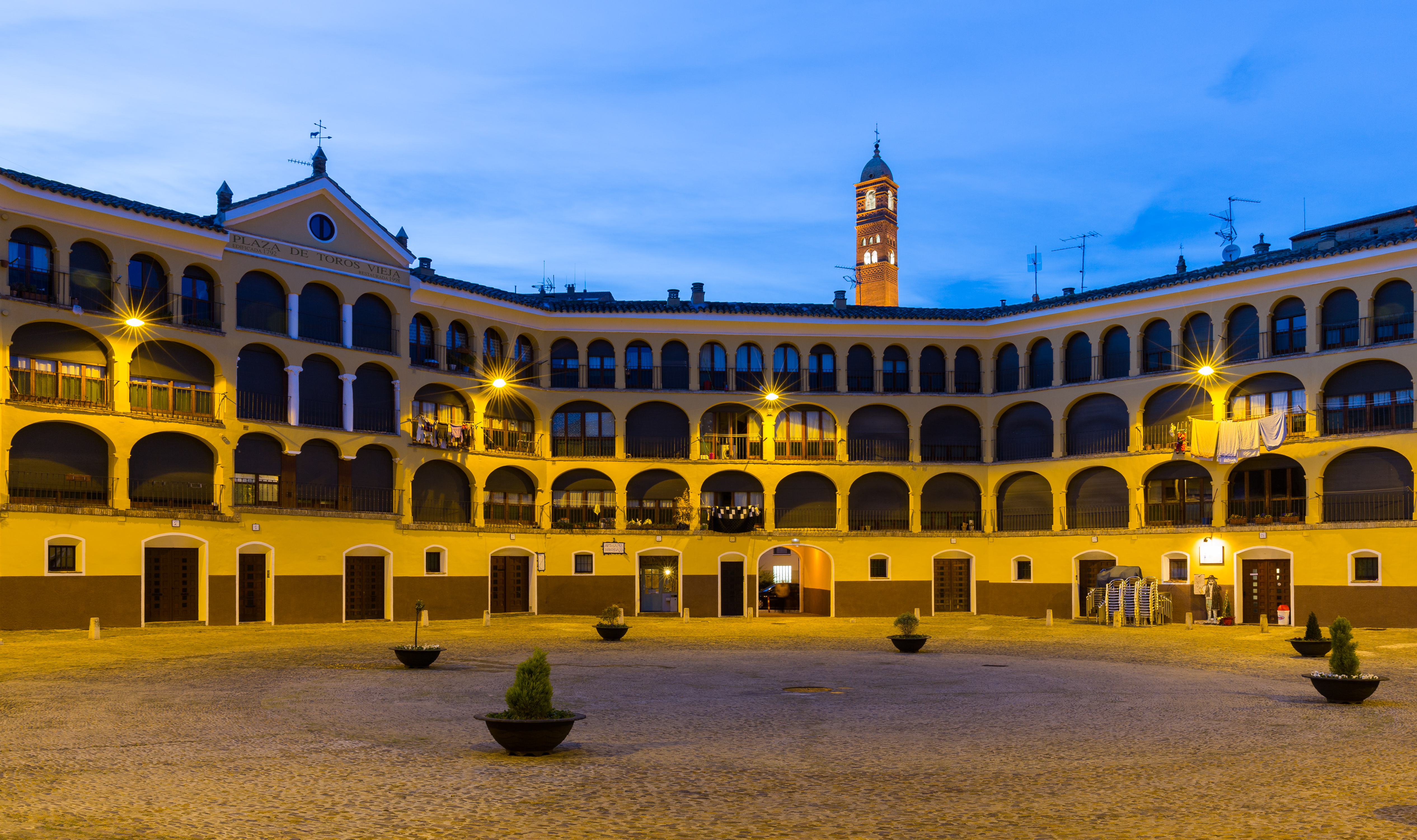 Old bull fighting arena, Tarazona, Spain